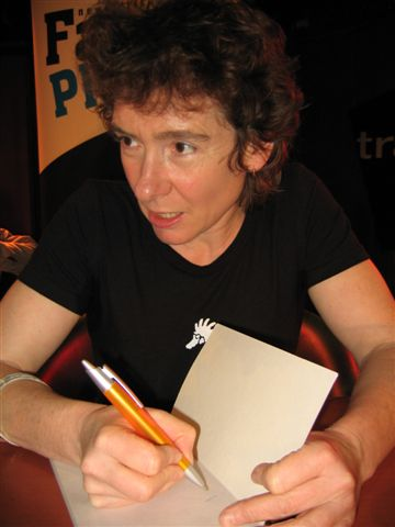 Jeanette Winterson (b. 1959), British writer